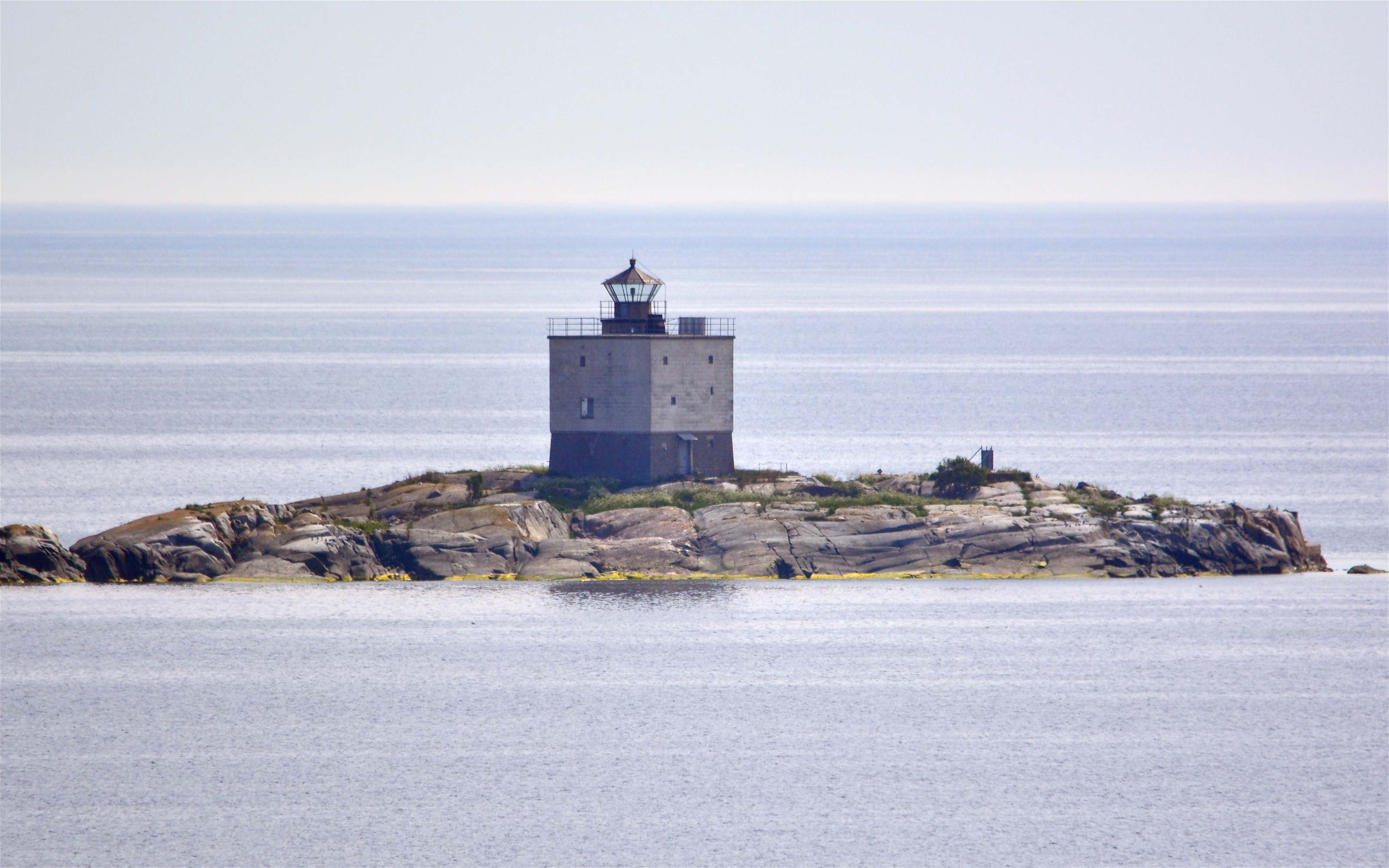 The lighthose Tjärven in Stockholm archipelago, Sweden